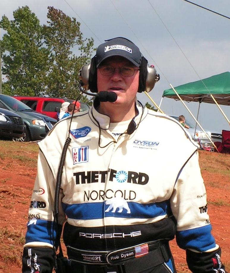 Rob Dyson pays a visit to Turn 3 during the w:2007 Petit Le Mans